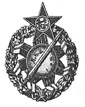 Sign of the Soviet Latvian shooting regiments